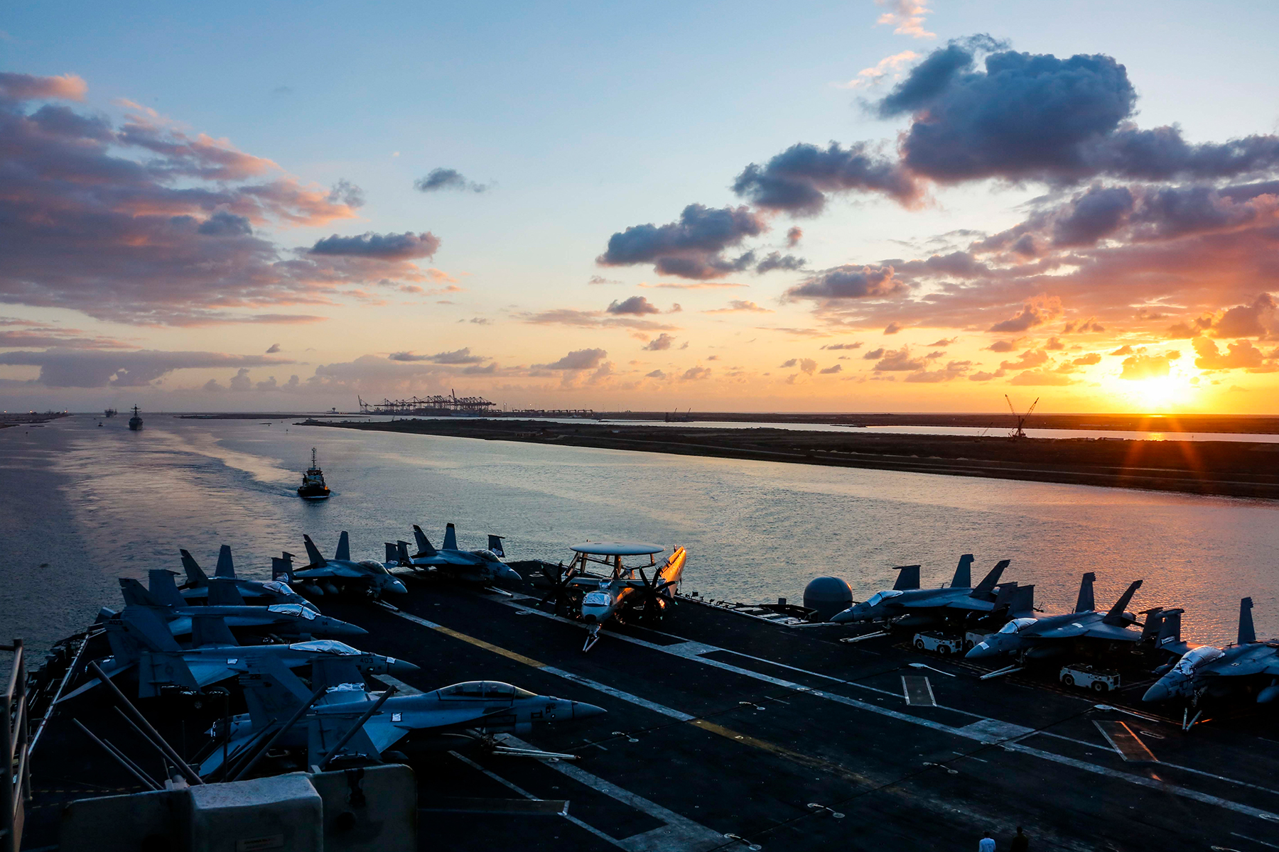 The aircraft carrier USS Abraham Lincoln transits the Suez Canal while supporting U.S. interests in the region.